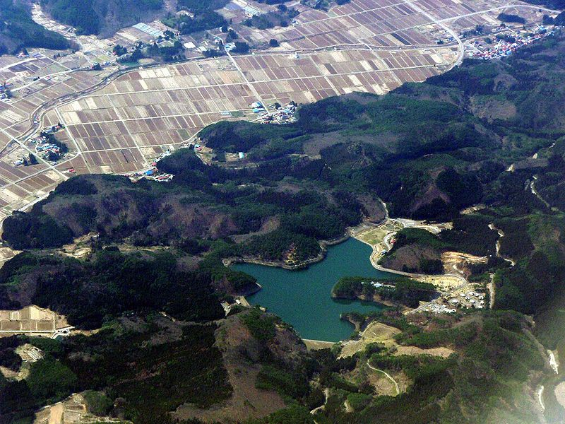 A view of Fujinuma Dam and reservoir. Dam at bottom center.